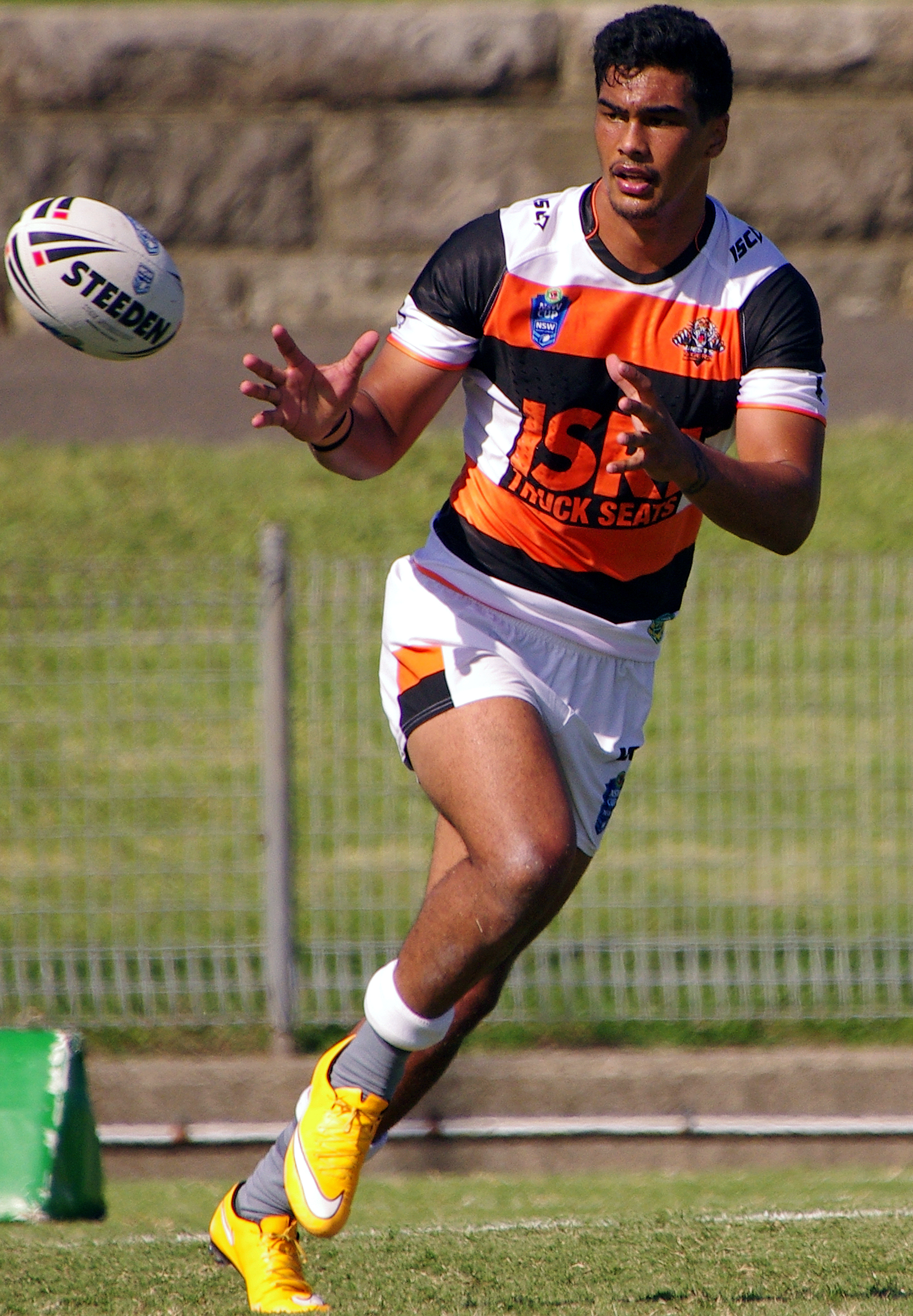 Chance Peni